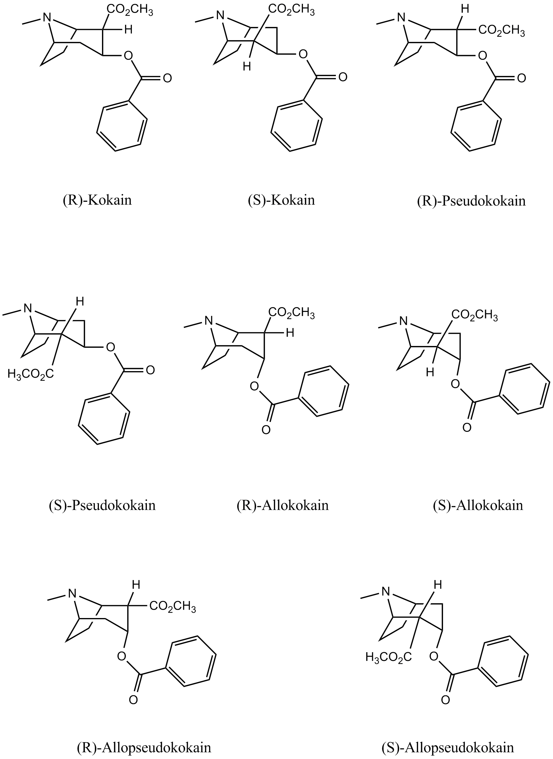 Stereoisomeres cocain. Sselwer gemolt am chemoffice